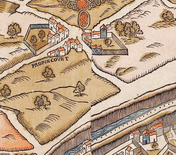 Villa Propincourt on the plan of Truschet and Hoyau (1550).